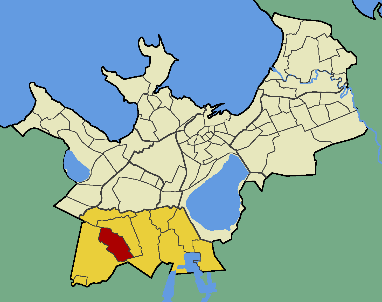 Map of Tallinn (Estonia) with borders of the quarters, Nõmme district and Kivimäe quarter emphasised